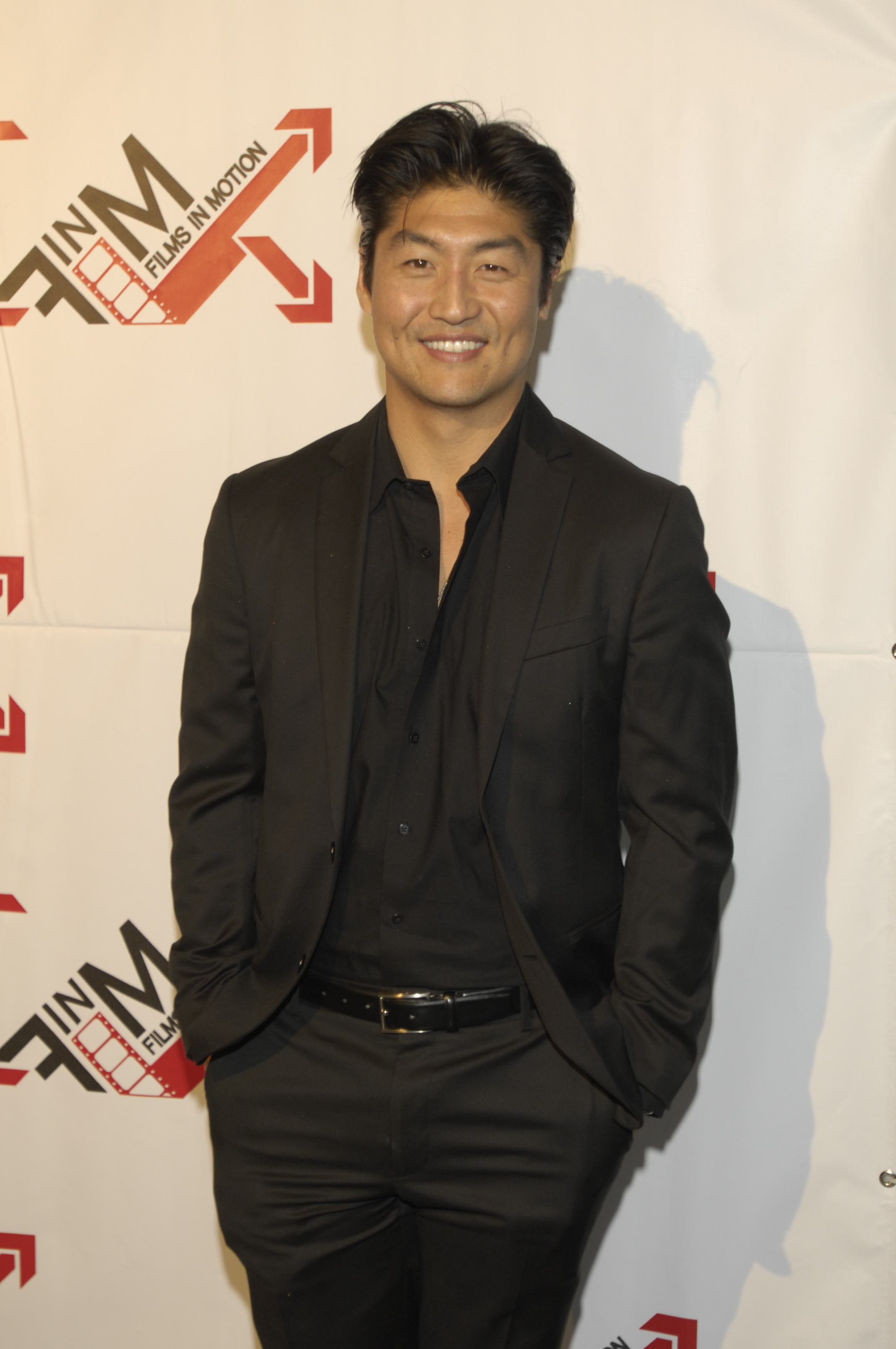 Tee at the Premiere of "Blood Out"